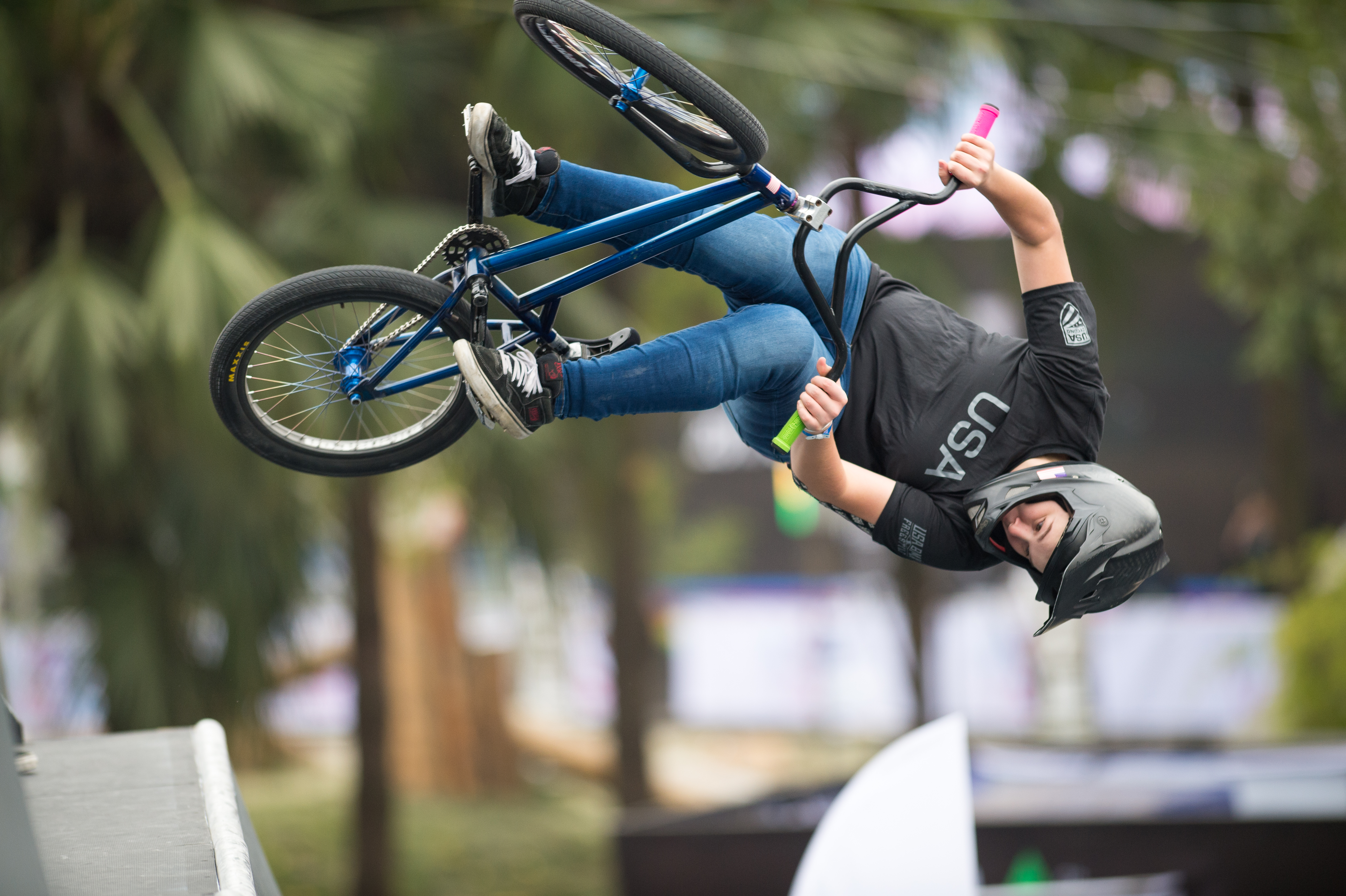 UCI Urban World Championships in Chengdu, China